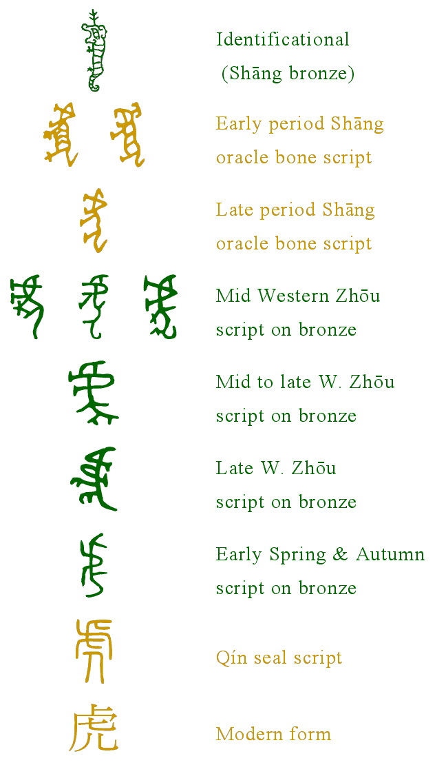 Chart comparing Chinese character 虎 hu3 'tiger' from bronze inscriptions to other forms. Created entirely by uploader in Word and Photoshop using CGI rendition of tiger clan emblem from rubbing plus typed bronze, oracle bone and seal fonts made available for public use by the Academia Sinica's Chinese Document Processing Laboratory (CDPL) under the Institute of Information Science with assistance from the Bronze Inscription Research Team (BIRT) under the Institute of History and Philology of the Academia Sinica